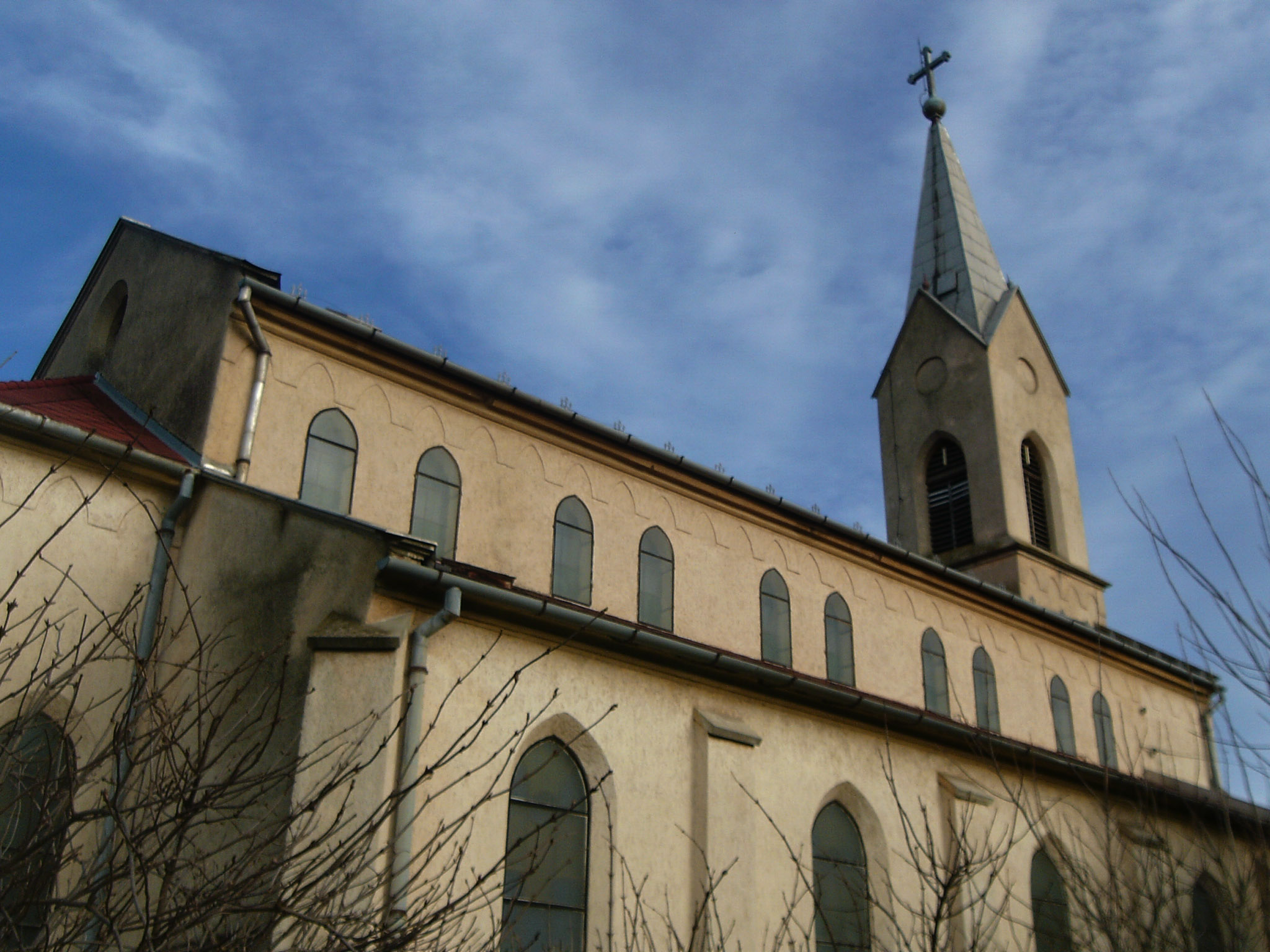 Baracs, Hungary